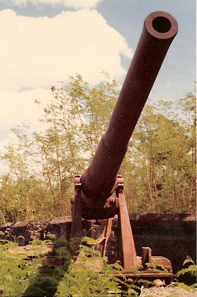 United States Model 1905 6-inch disappearing gun at Fort Wint, Subic Bay, Luzon, Philippine Islands